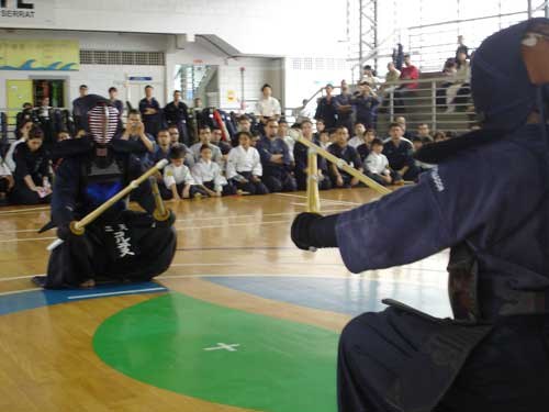 Two Kenjutsu practitioners doing Sonkyo before Shiai(match)